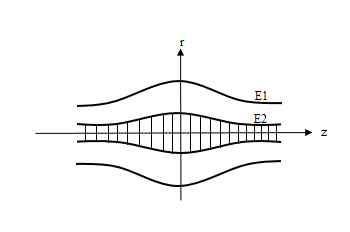 Orbitrap